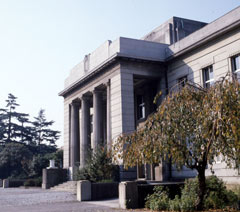 Former Privy Council Building, Tokyo, Japan